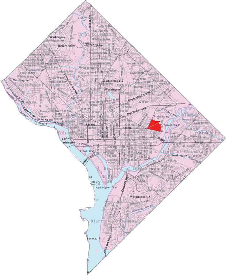 This image is a modified version of a self-generated reference map from the U.S. Census Bureau's American Factfinder at by Wikipedia user Msclguru.